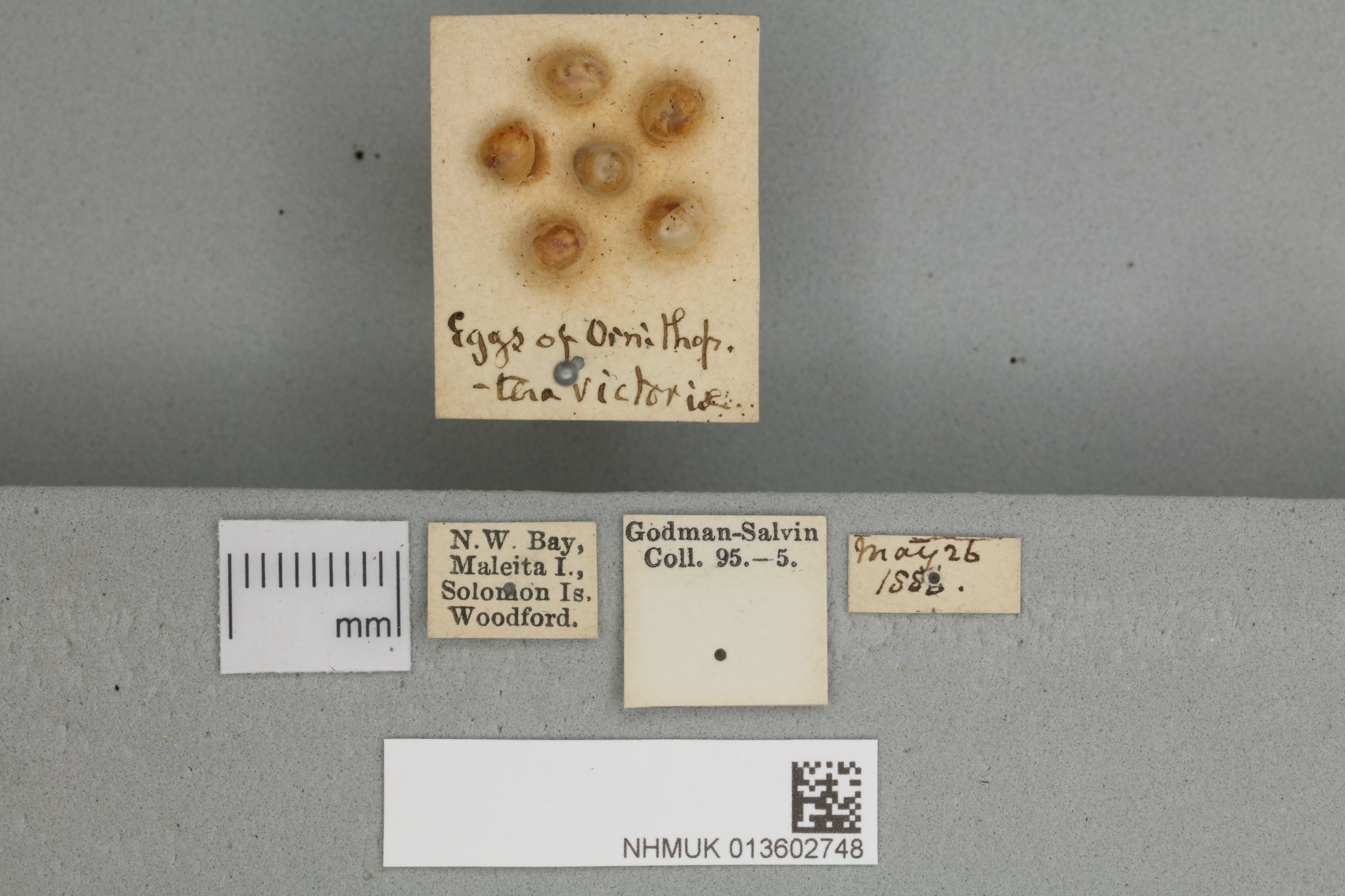 A dorsal photograph of the Queen Victoria's Birdwing Butterfly- Ornithoptera victoriae regis (Rothschild, 1895). Six eggs.